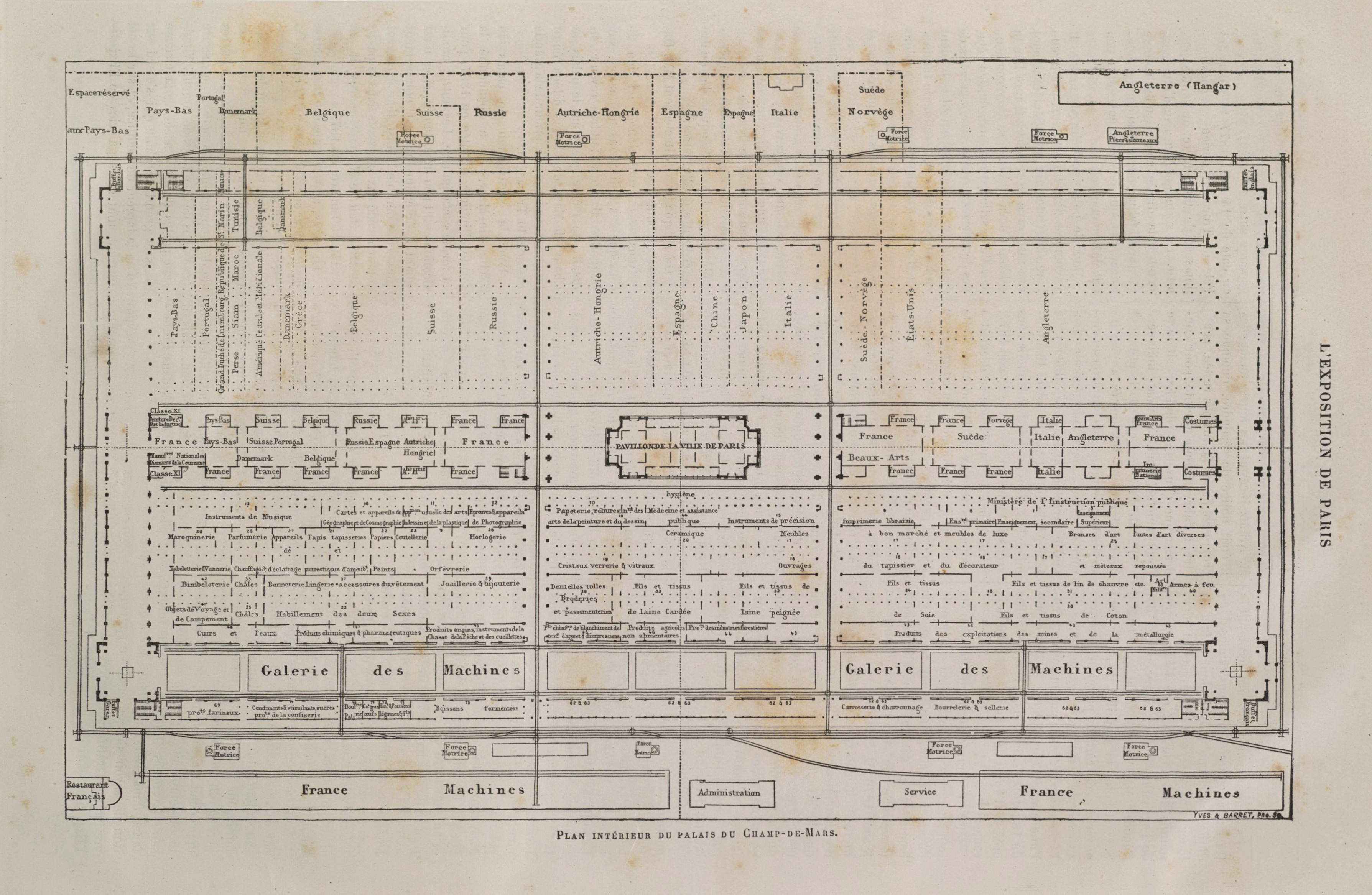 Plan of the Palais du Champ-de-Mars, in the 1878 Paris World Fair. The Palais contained, among other things, the foreign sections (including the "rue des nations", which was a street with foreign buildings on each side), the arts exhibits, and the Galerie des machines.